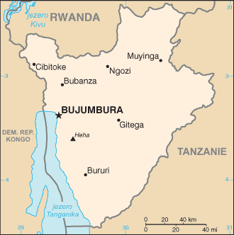 Map of Burundi with Czech description.